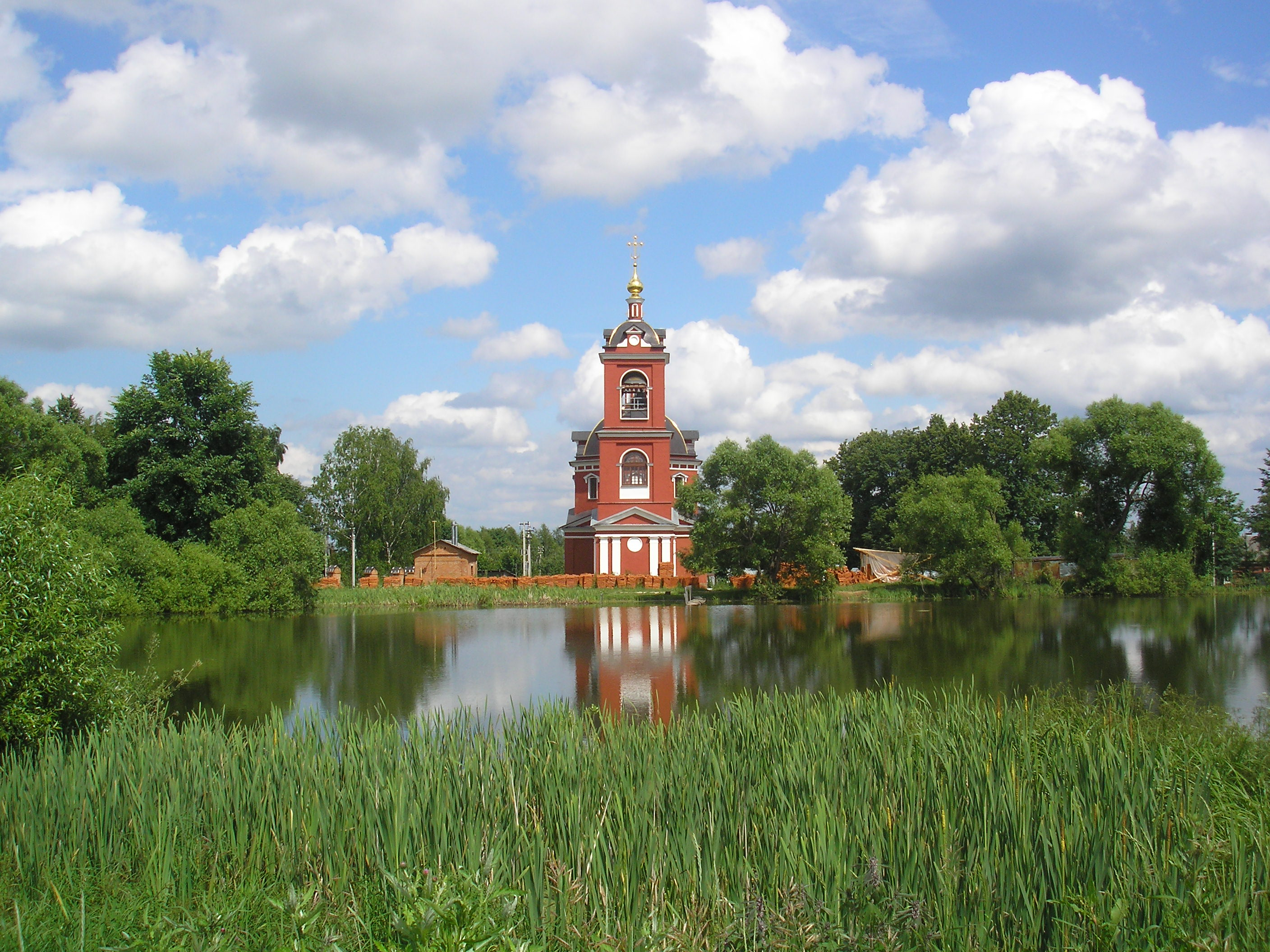 Church of Boris and Gleb in Kurtnikovo, Istra district, Moscow region.